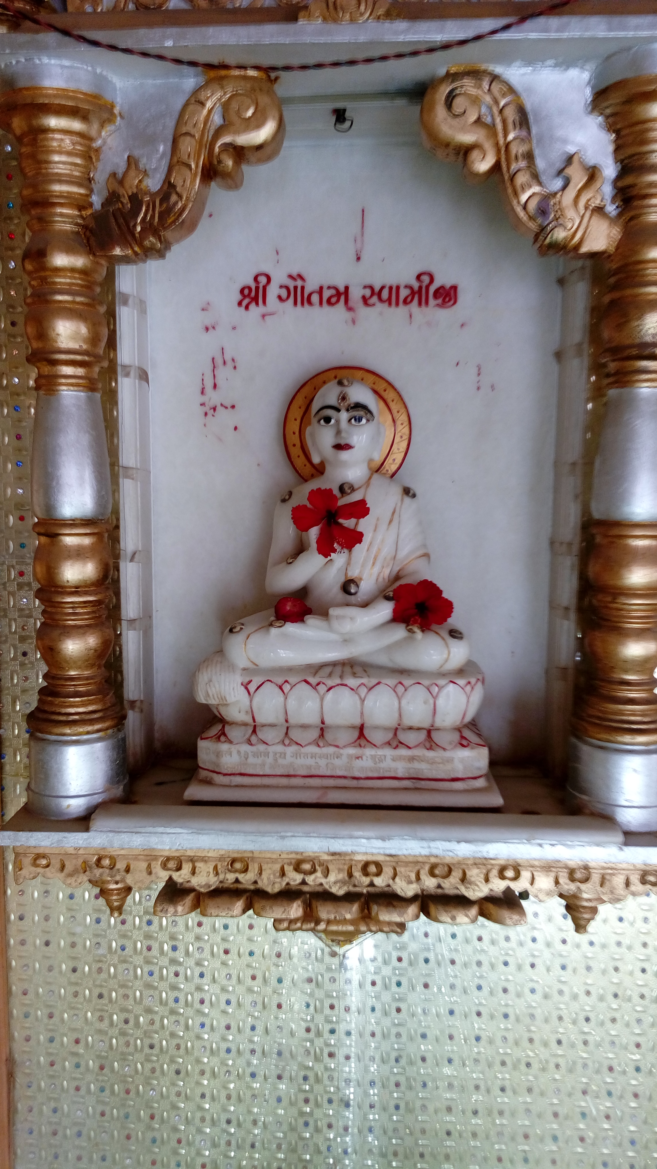 Indrabhuti Gautama, the first Ganadhara (chief disciple) of Mahavira, the last Tirthankara of Jainism, the religion from India. His image from the Jain temple in Mundra, Kutch, Gujarat, India.